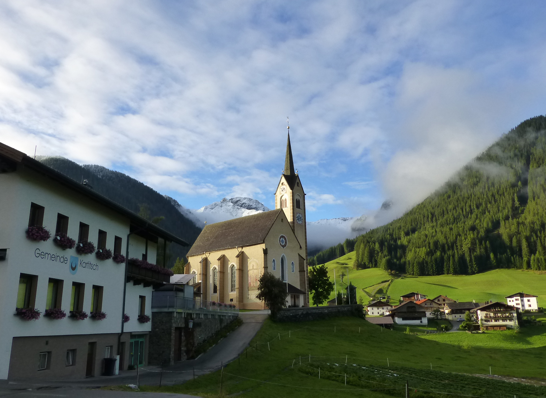 Kartitsch village, St. Leonhard church, Karnische Alpen, Osttirol.